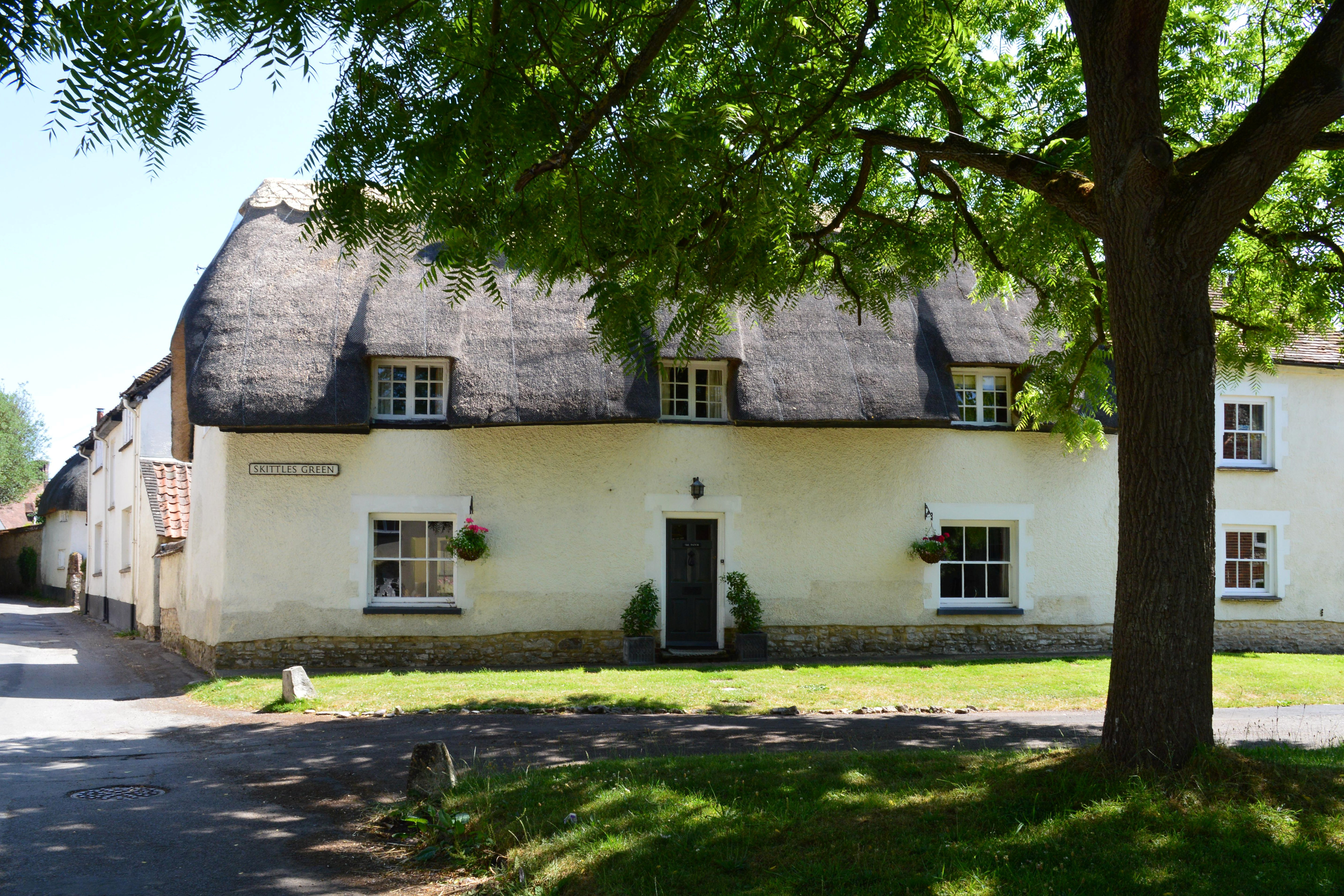 The Patch, 5 Gibson Lane, Haddenham, Buckinghamshire, seen from the north. The house is built of wychert. This side of the house faces Skittles Green.